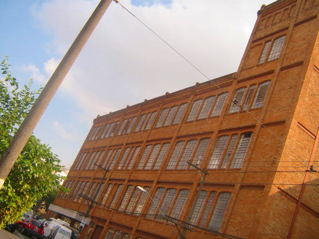 Cotonifício Crespi warehouse